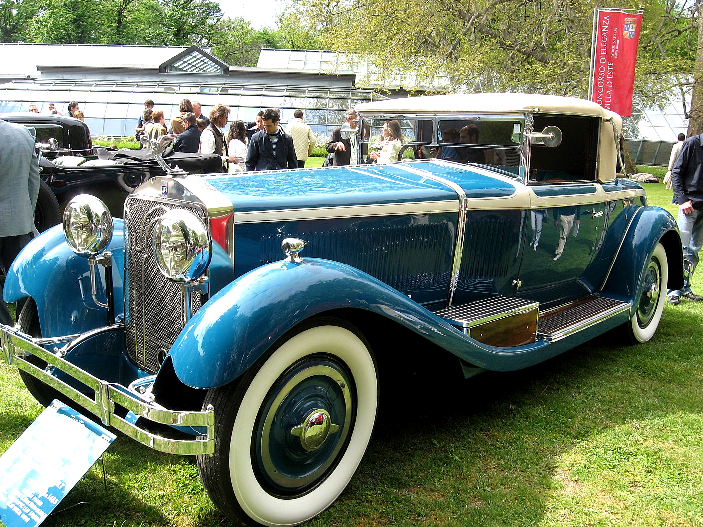 Subject:Isotta Fraschini 8A Roadster, bodied by Castagna Date:April 27th, 2008 Event:Concorso d’Eleganza”Villa d’Este” 2008 Place/Country: Cernobbio (CO), Italy